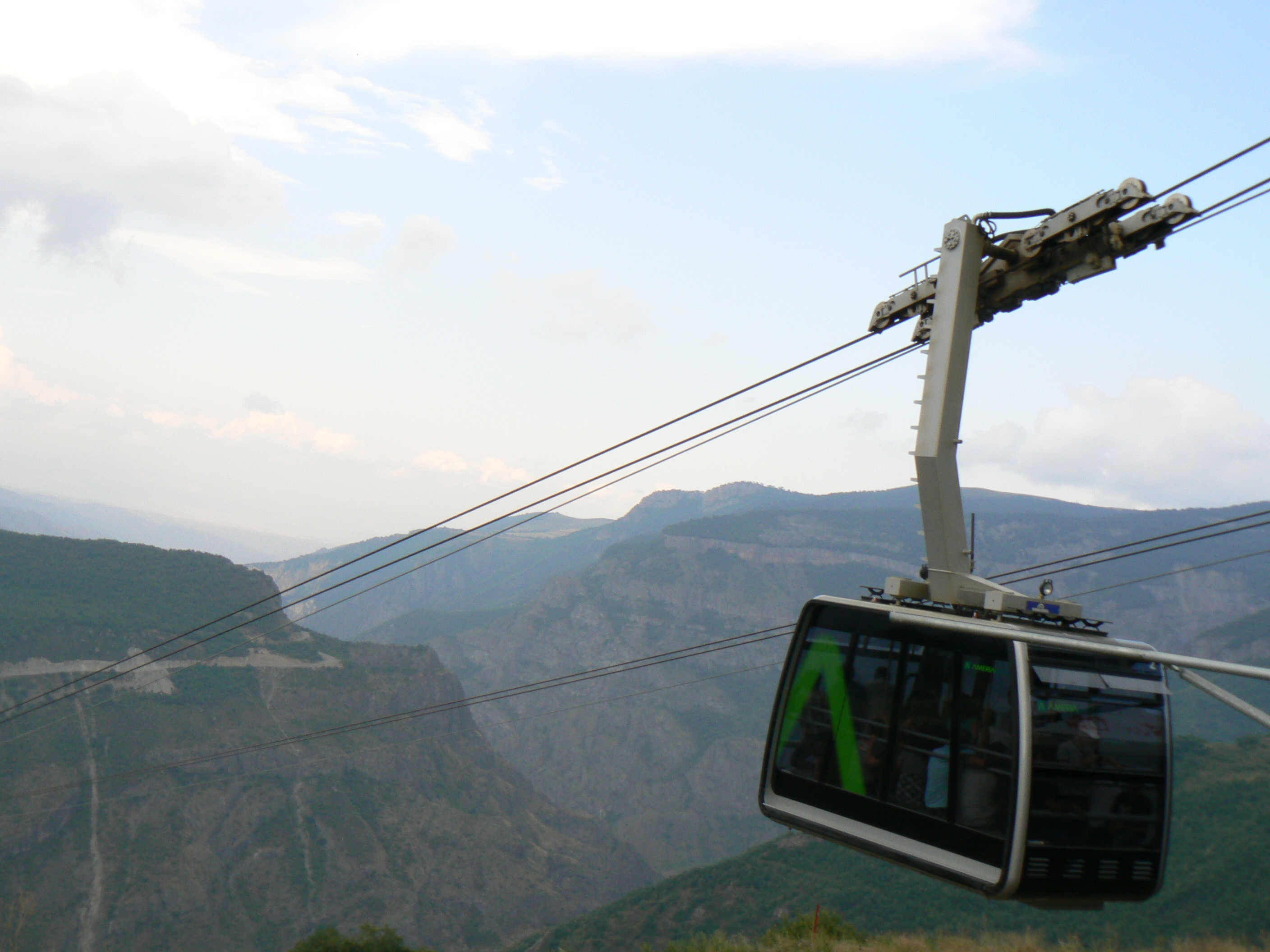 Tram of the Wings of Tatev - the World longest aerial tramway